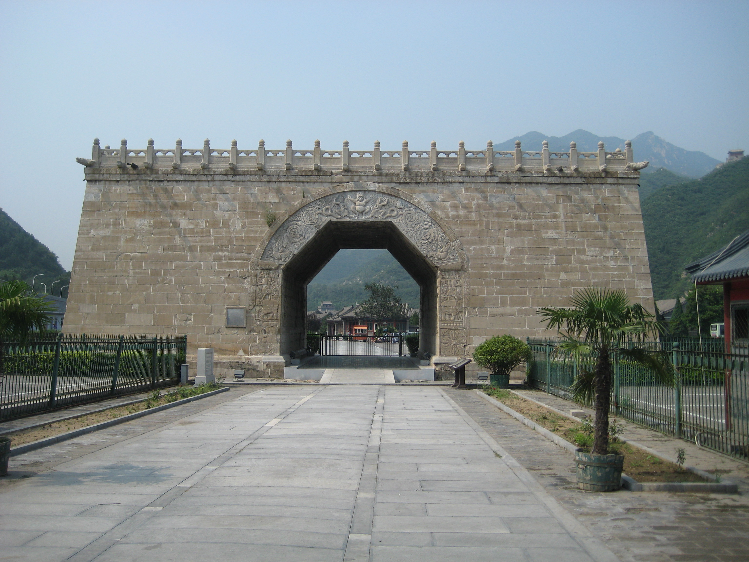 South side of the Cloud Platform at Juyongguan (居庸關雲台), Beijing China. Built 1342.